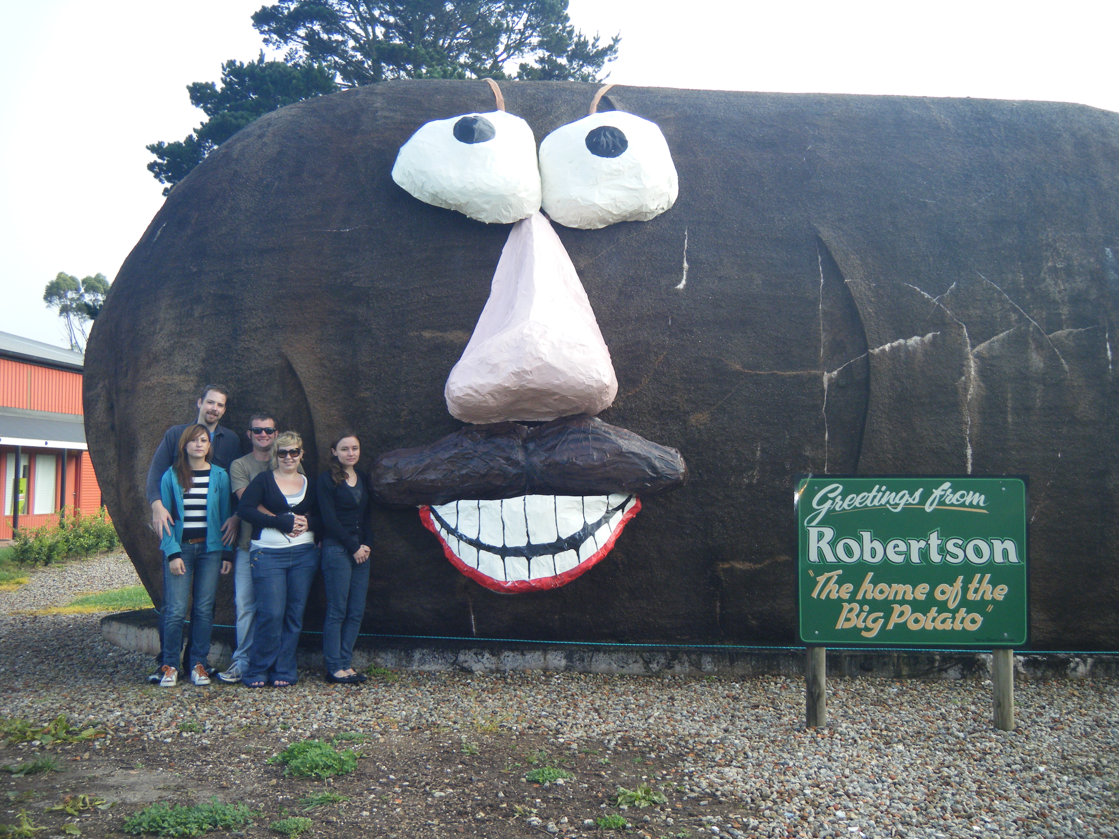 The Robertson Potato Face